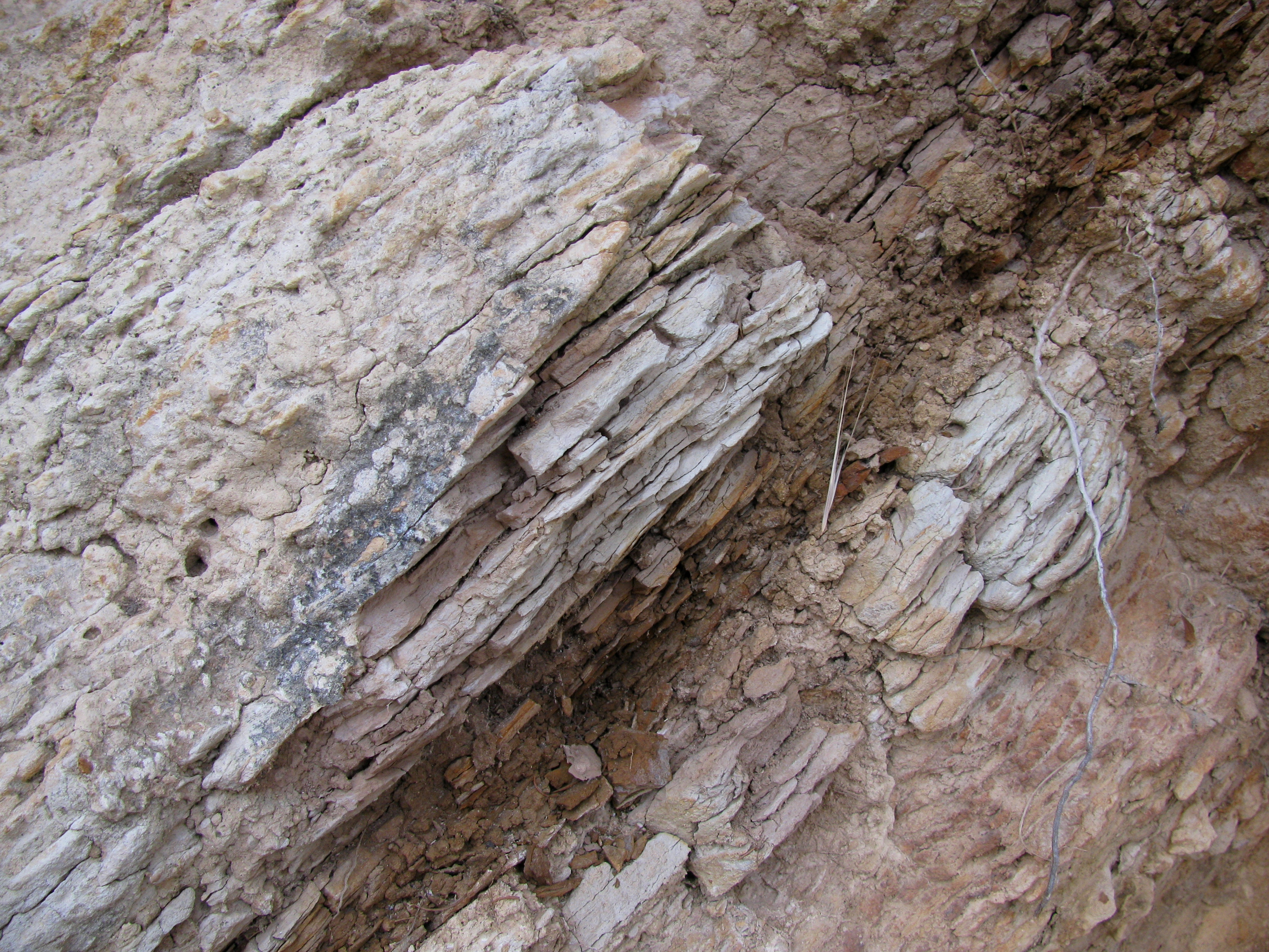 Monterey Formation, Gaviota State Park, California, USA. Photo by self, 9/11/10, GFDL/equiv.